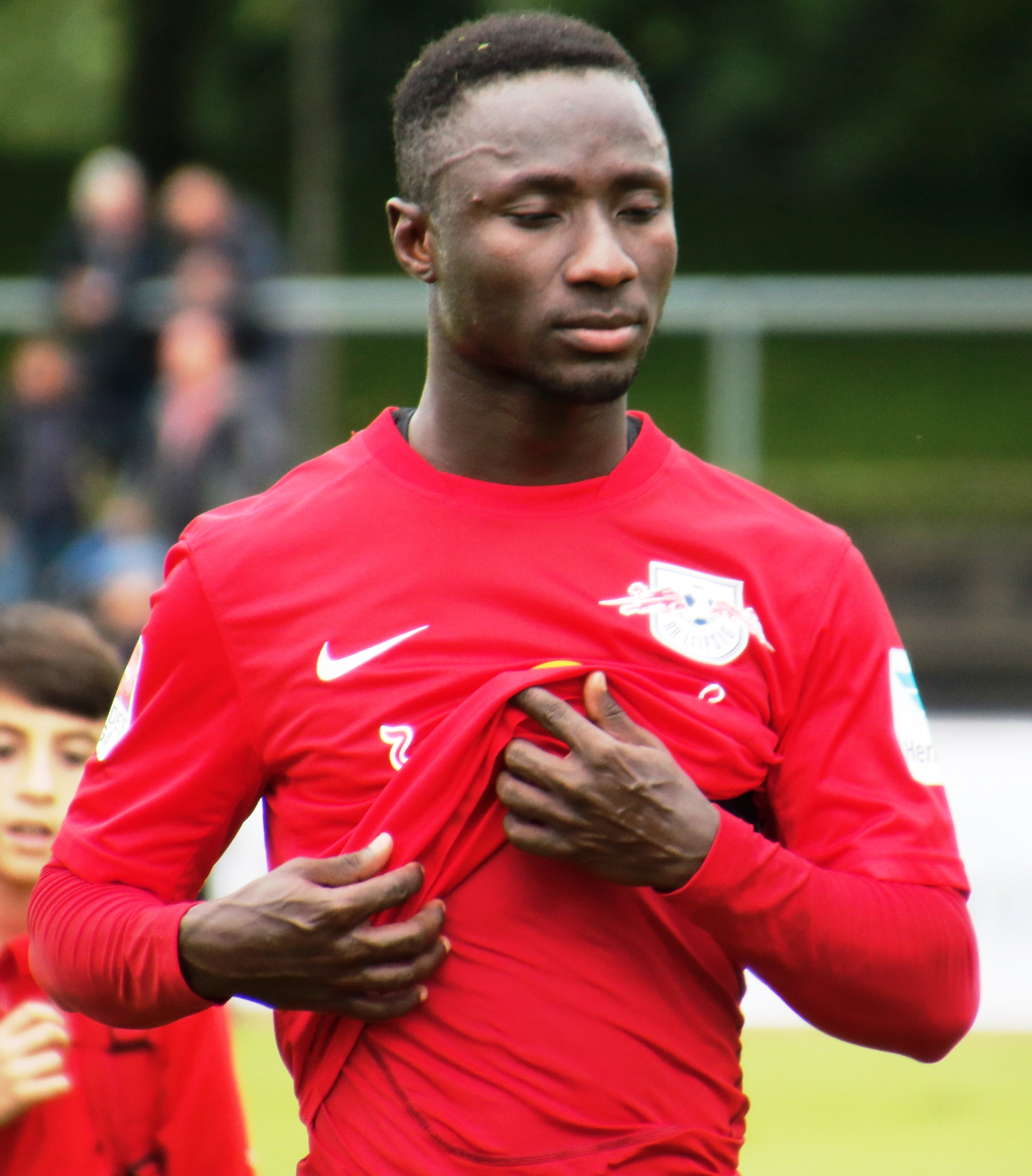 friendly match